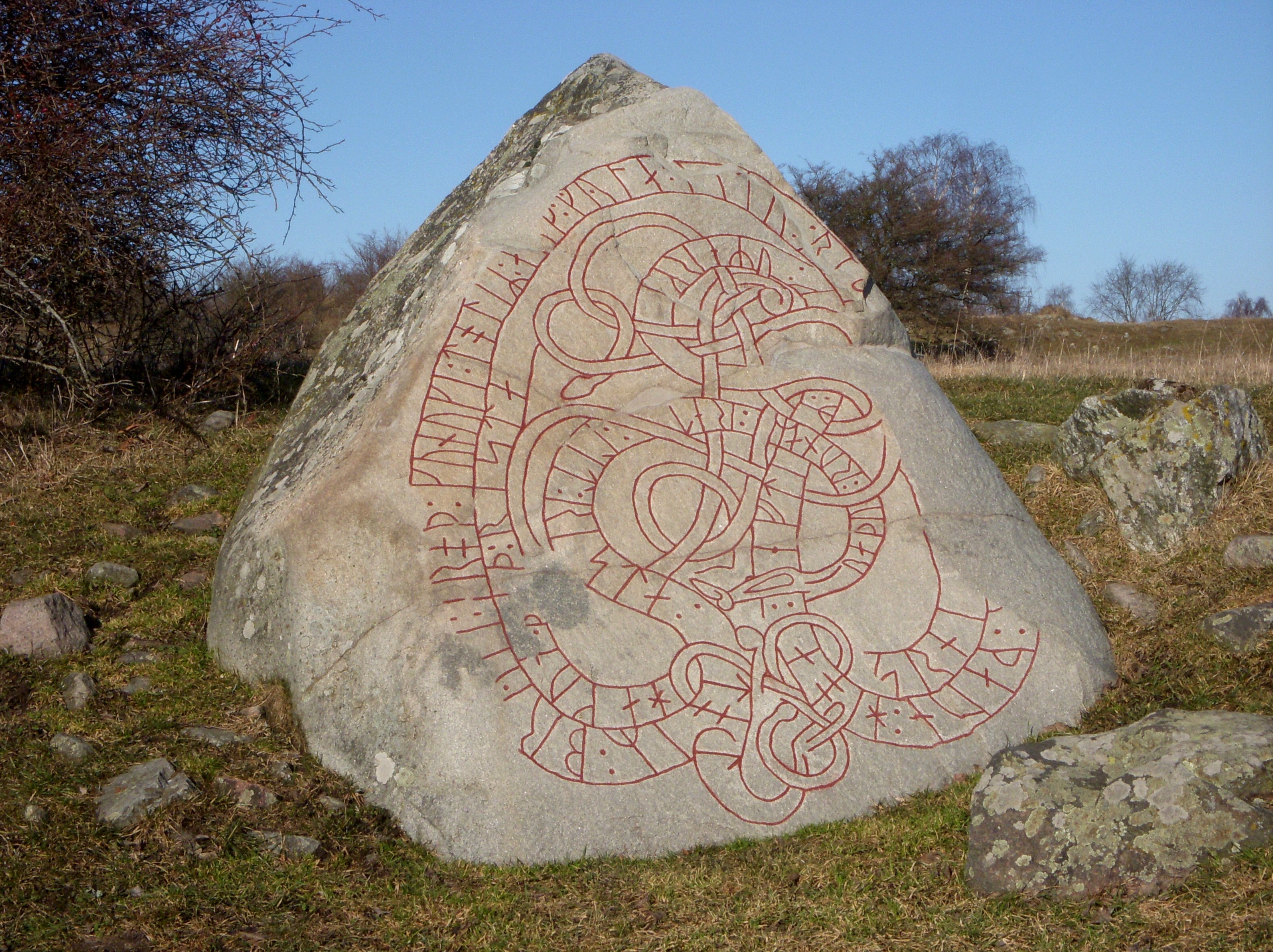 11th century rune stone mentioning King Hacon Red (Håkan Röde) of Sweden.